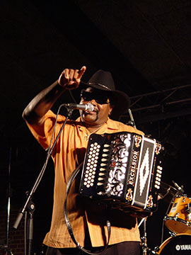 Nathan Willams